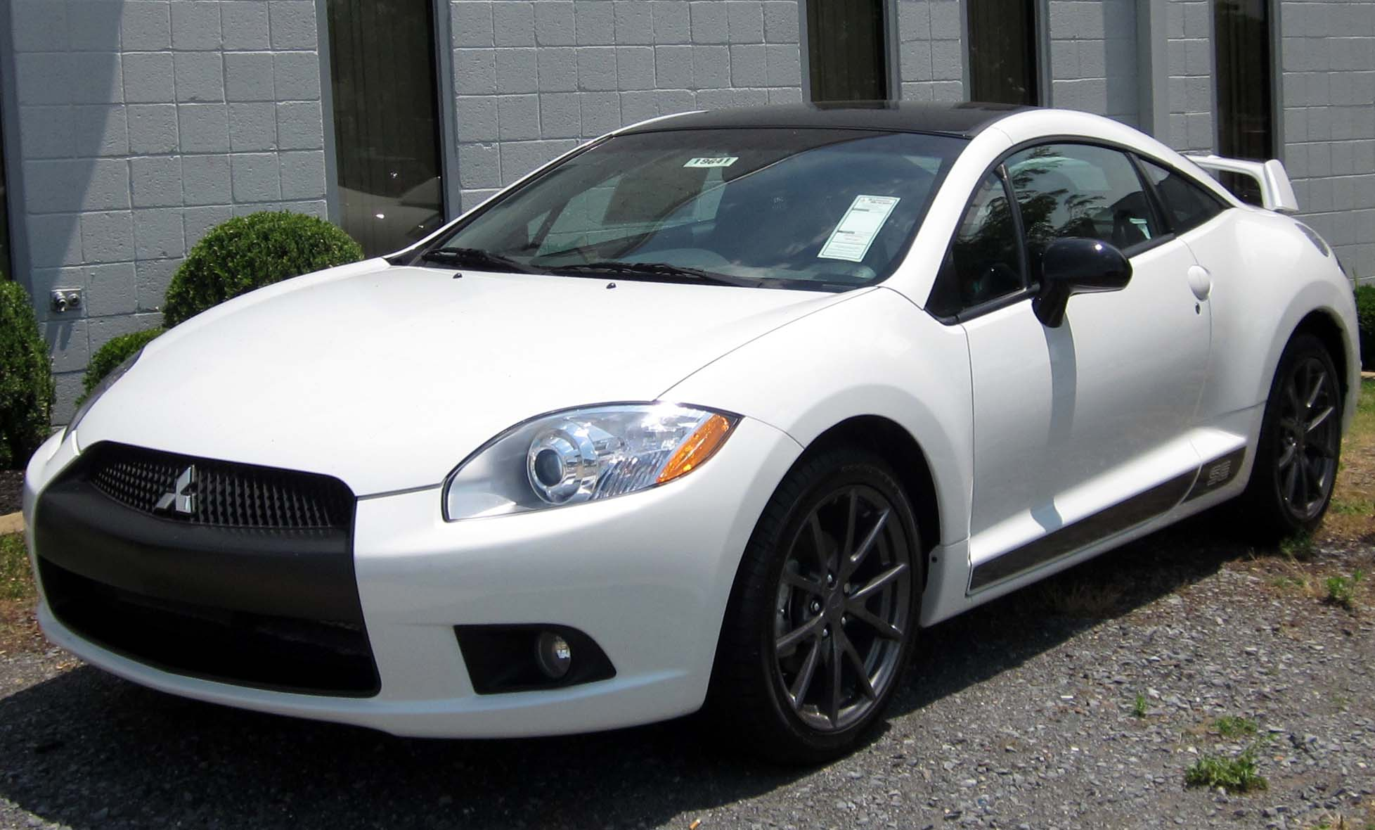 2012 Mitsubishi Eclipse photographed in Silver Spring, Maryland, USA.